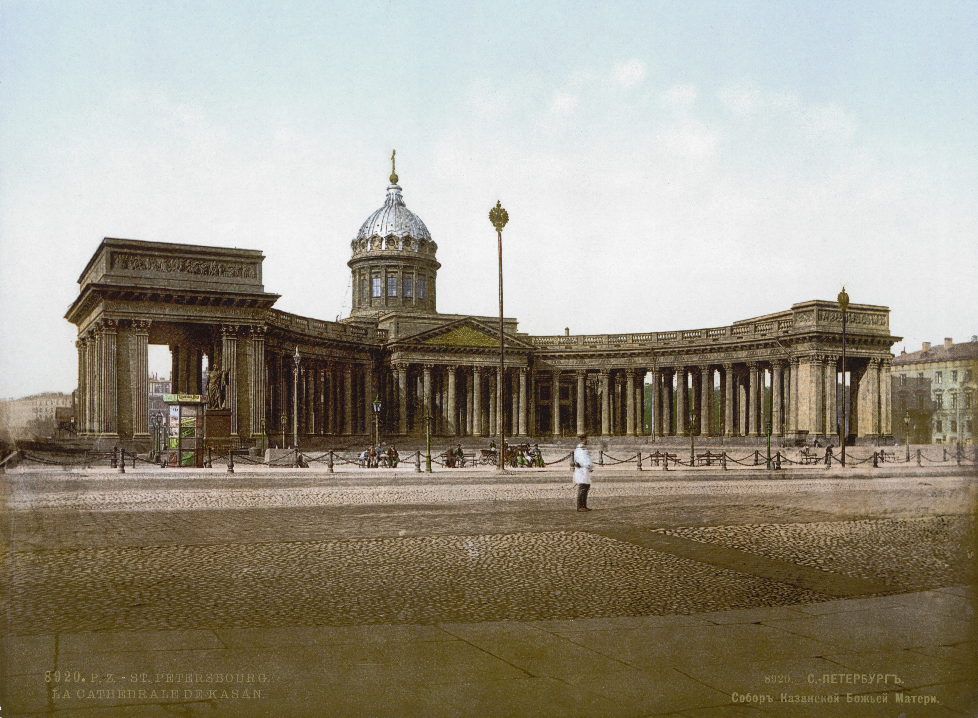 View on Kazan Cathedral from Nevsky Prospekt in St Petersburg (Russia). 19th-century photochrome print (1899)